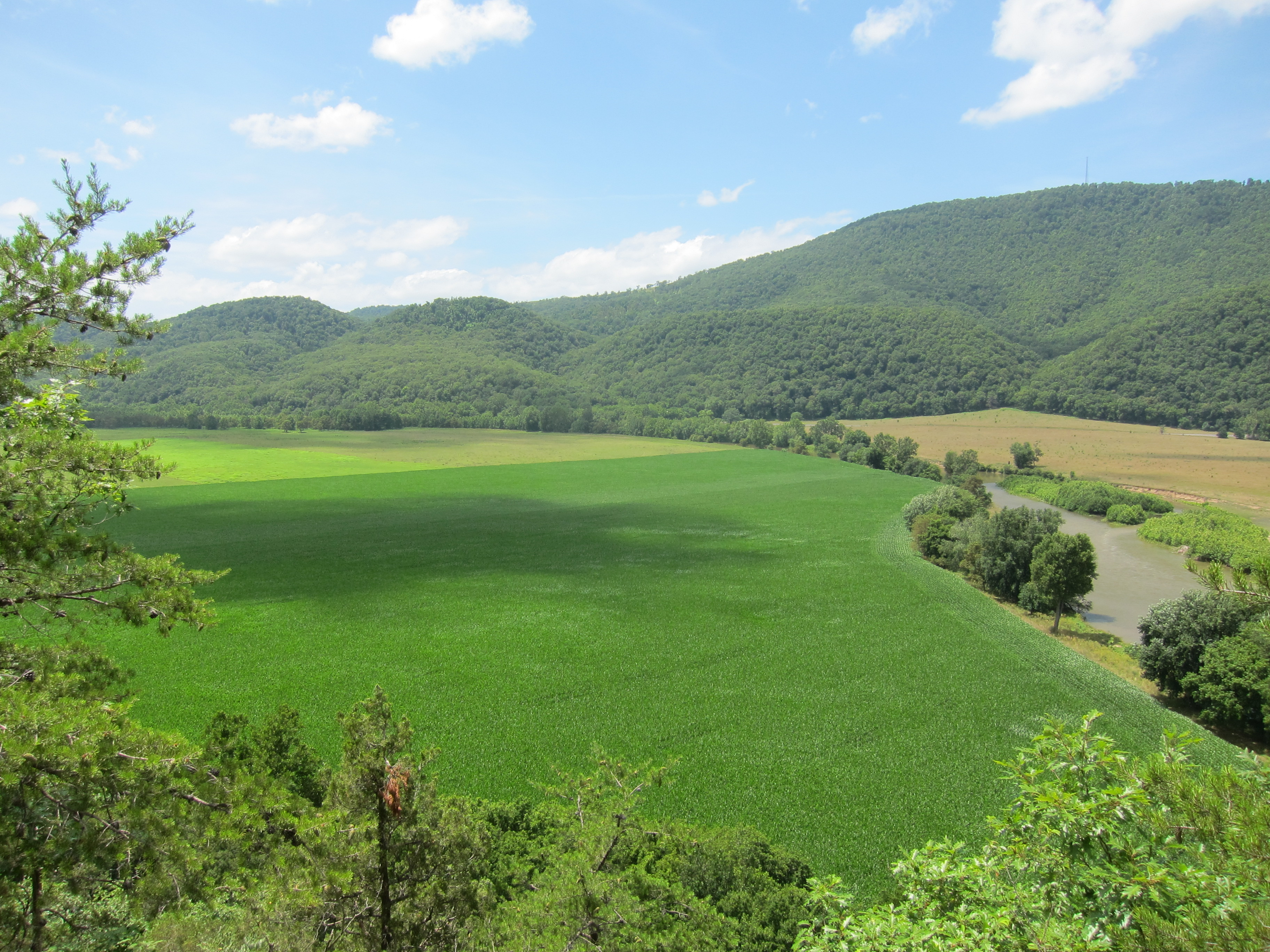 Breakneck is a scenic overlook along South Branch River Road (West Virginia Secondary Route 8) south of Romney in the U.S. state of West Virginia. Breakneck overlooks Mill Creek Mountain and the South Branch Potomac River to its west.